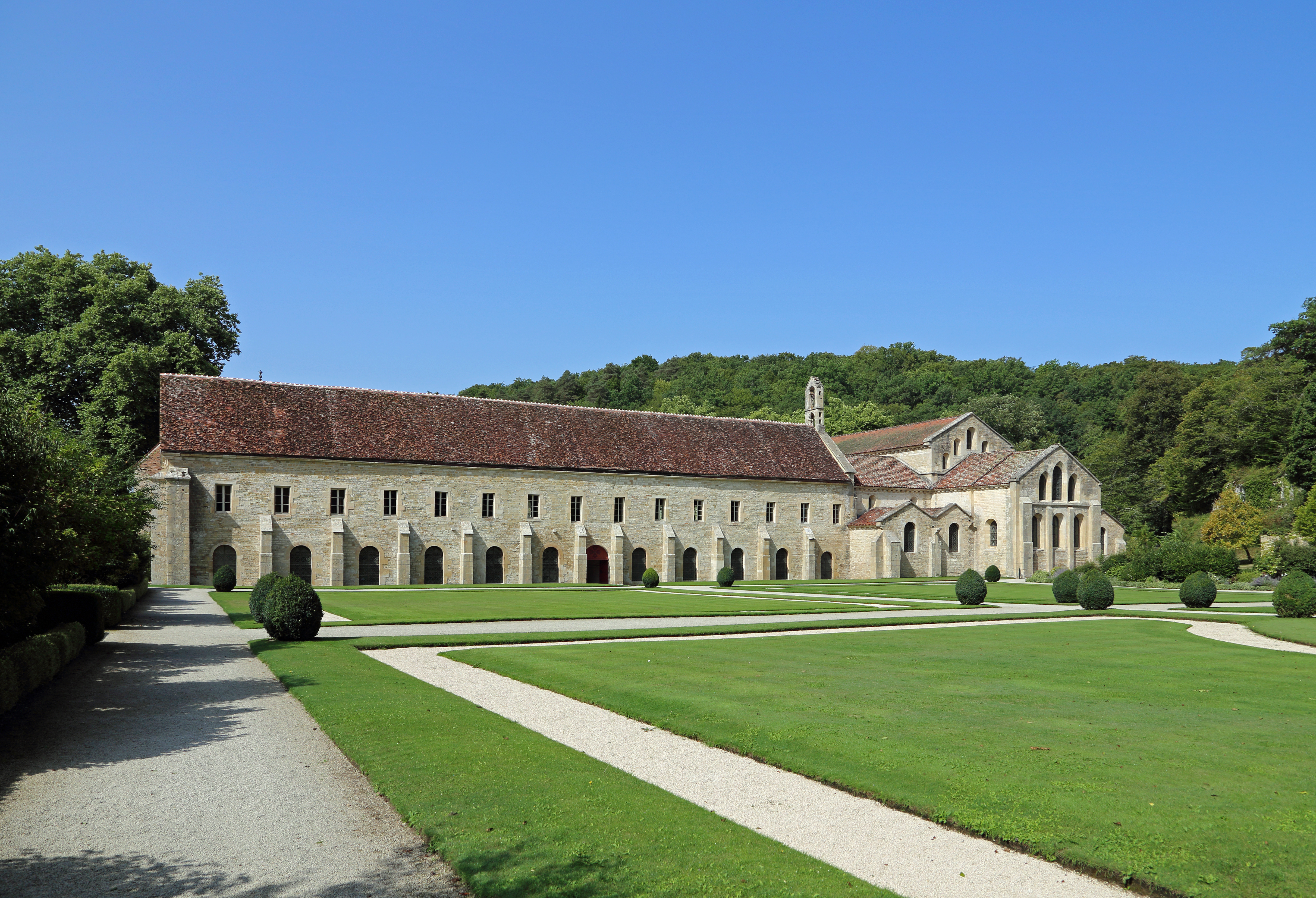 Marmagne (Côte-d'Or department, France): Fontenay abbey